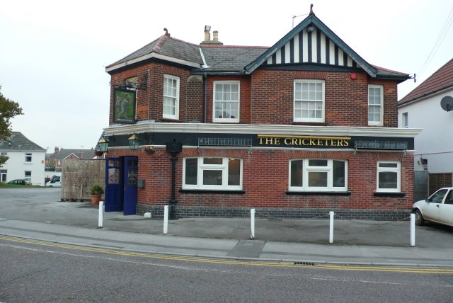 Cricketers Public House, Springbourne, Bournemouth. The pub is on Wyndham Rd near the junction with Spring Rd.